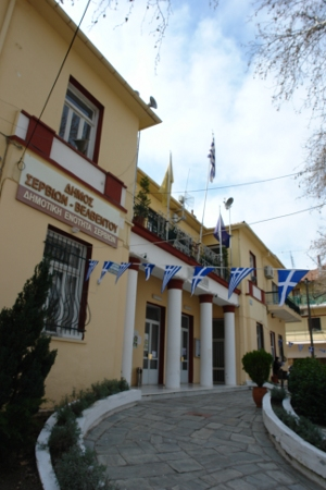 This is a photo of the Town Hall of the city of Servia, Greece, one day before the National Day of Independence.